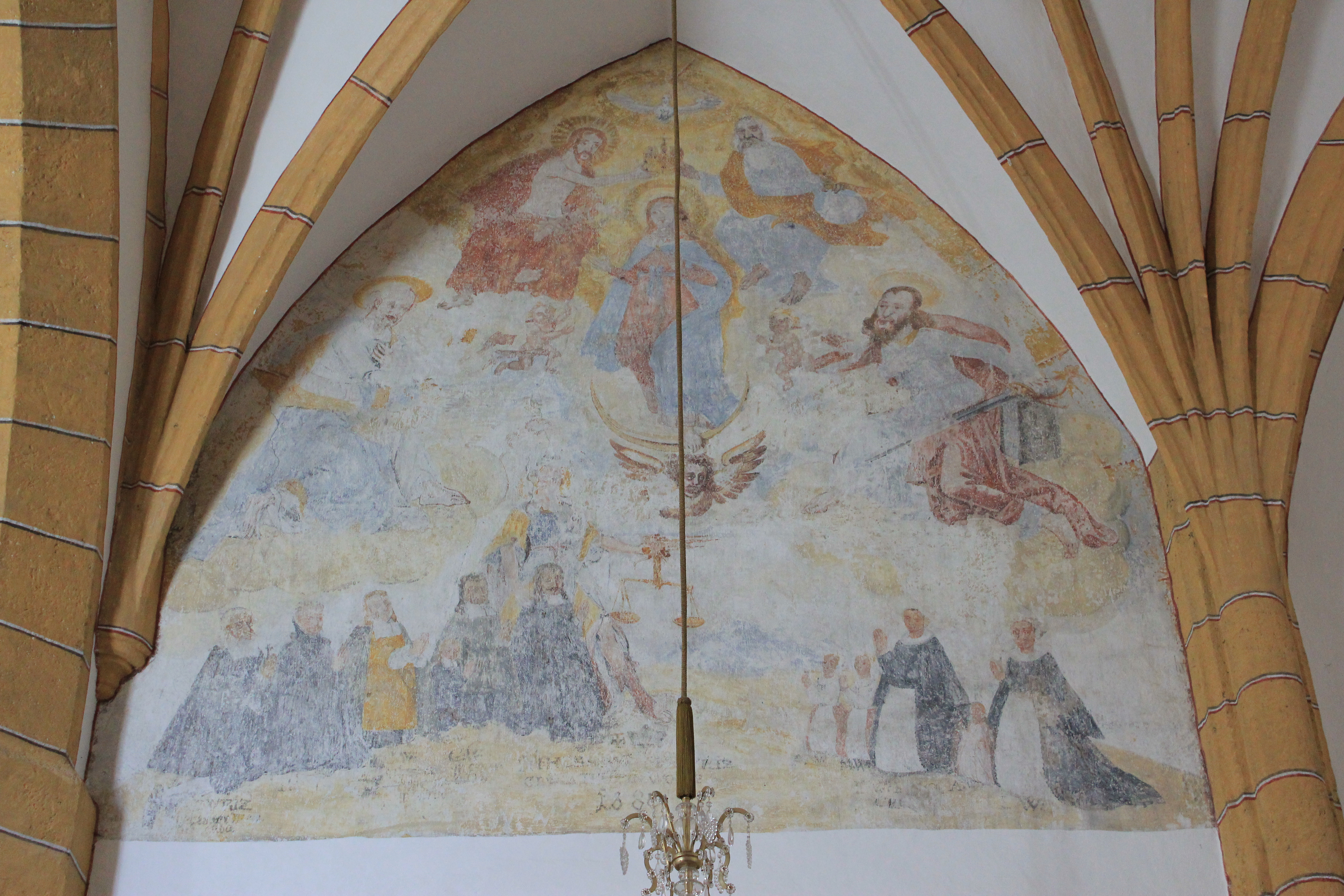 Parish church in Bleiburg - Assumption of Mary